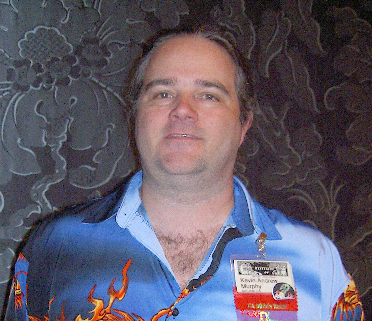 Speculative fiction author Kevin Andrew Murphy, photographed at Westercon 64 in the Fairmont San Jose Hotel on Sunday 3 July 2011.